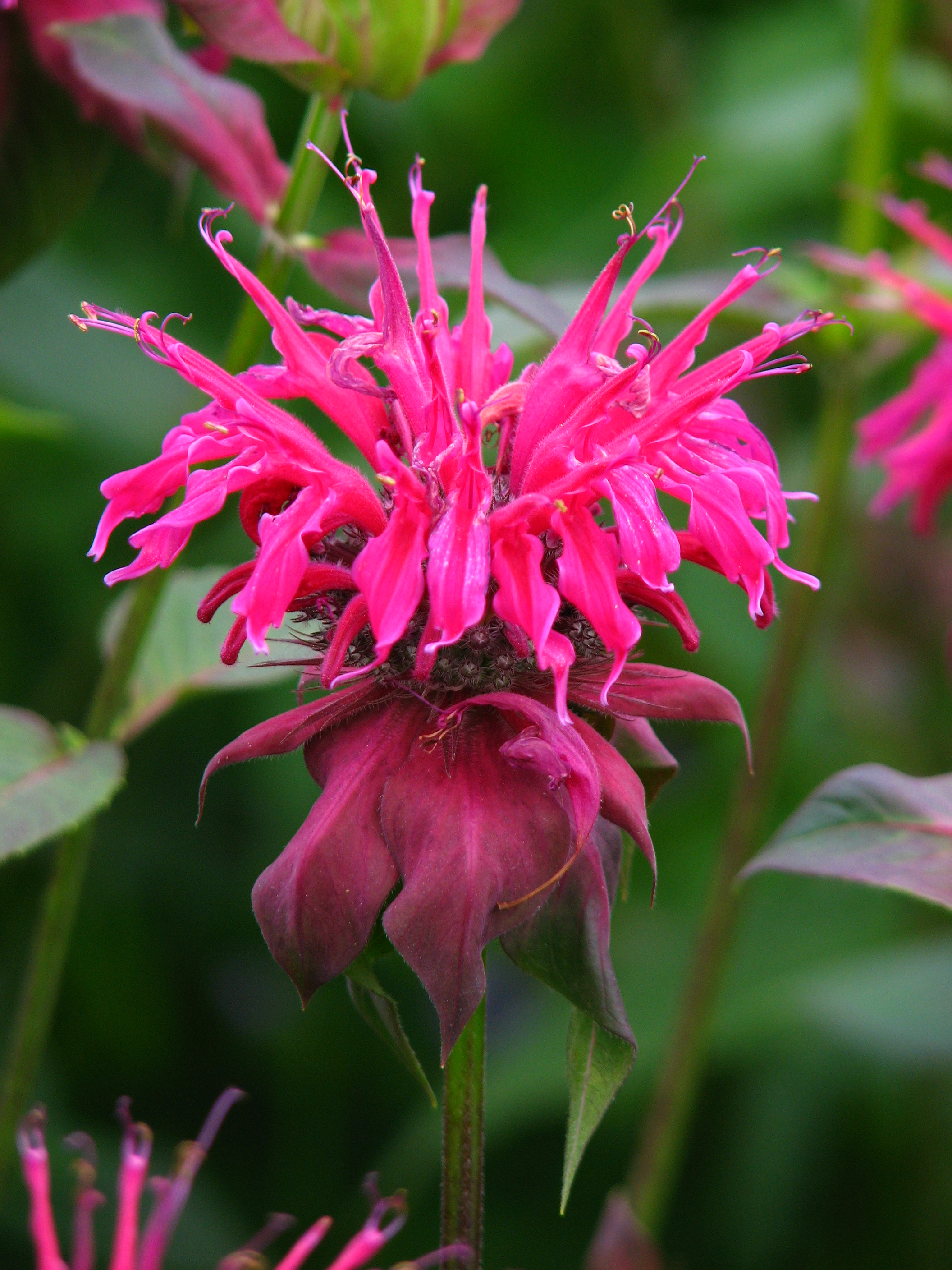 Monarda didyma 'Panorama'. From the collection of the Main Botanical Garden of Academy of Sciences in Moscow (perennials plot).